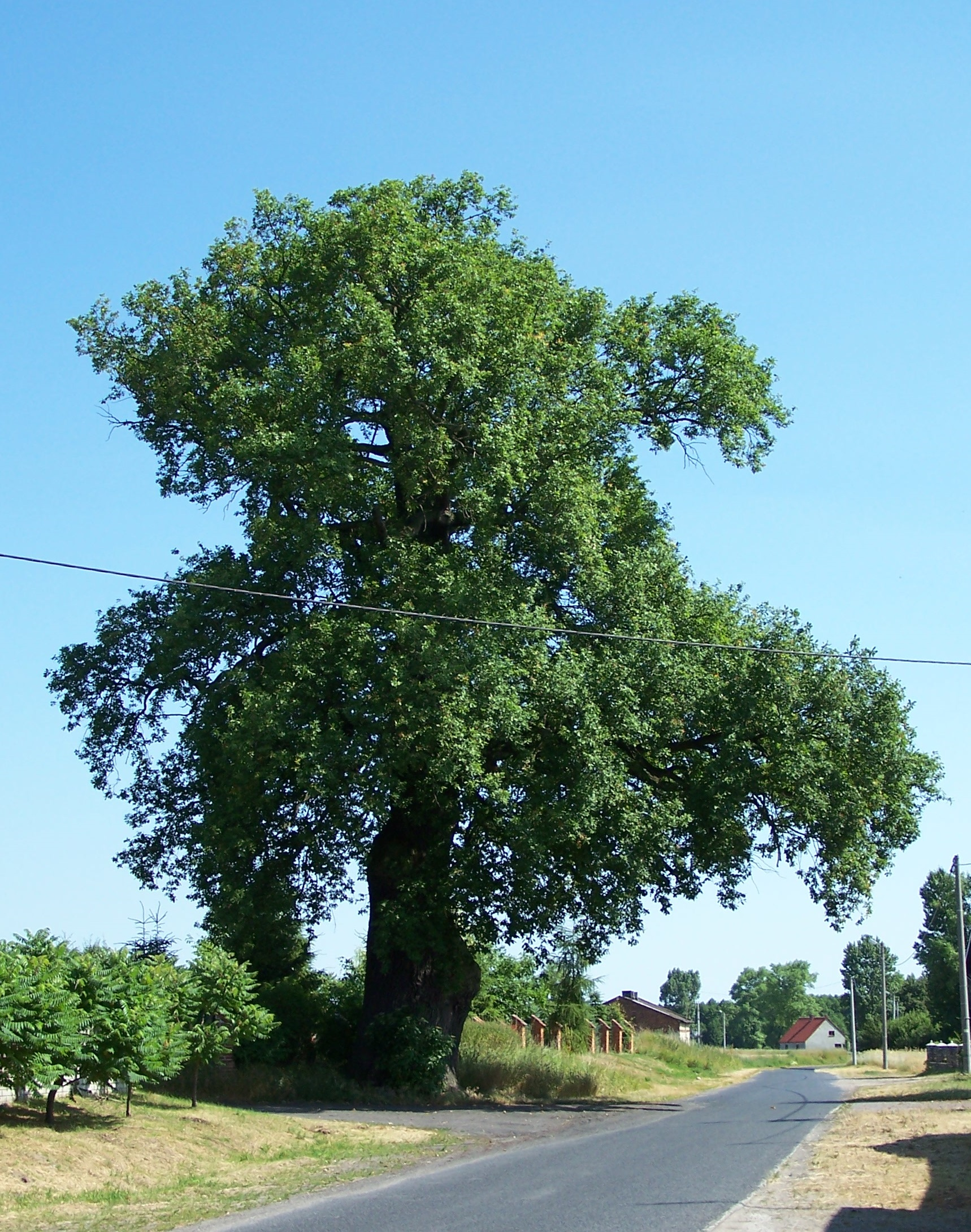 Oak "Chrobry" in Recz (Poland).